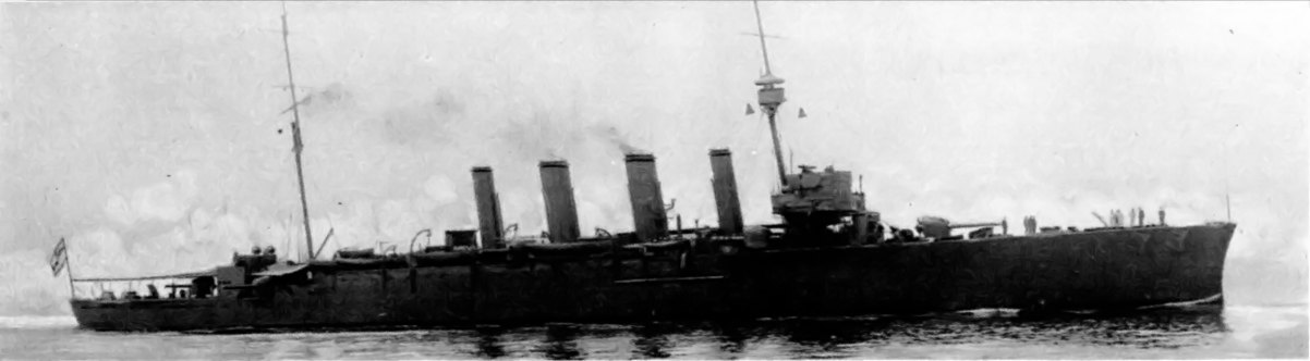 HMS Chatham 1911-1926.